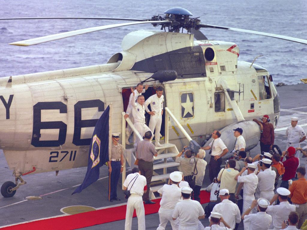 In the image above, the Apollo 8 crew stands in the doorway of the recovery helicopter after arriving aboard the carrier U.S.S. Yorktown. In left foreground is Commander Borman. Behind him is Lovell and on the right is Anders. Apollo 8 splashed down at 10:51 a.m. EST, Dec. 27, 1968, in the central Pacific Ocean, approximately 1,000 miles south-southwest of Hawaii.